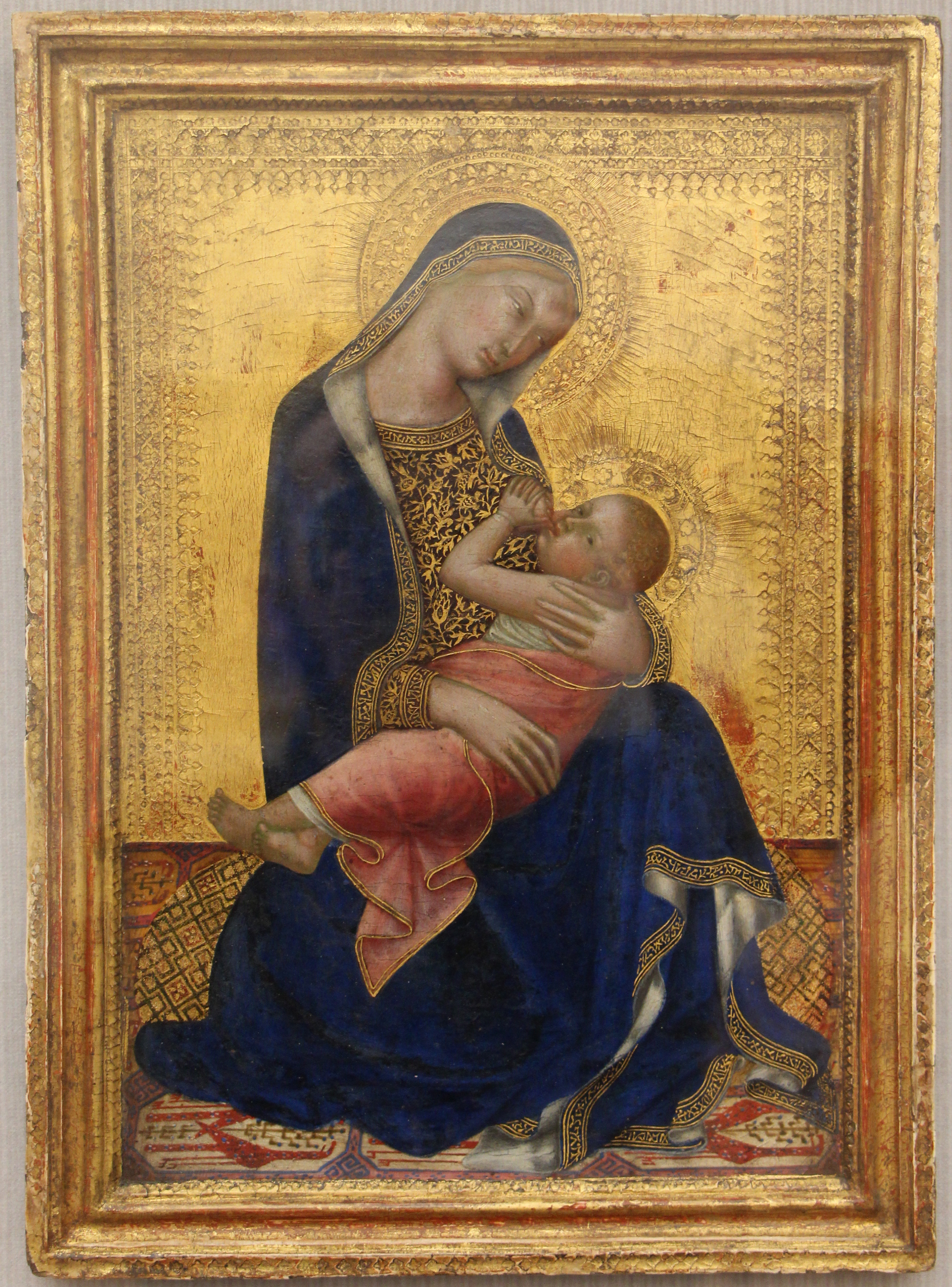 Italian Gothic paintings in the Gemäldegalerie, Berlin